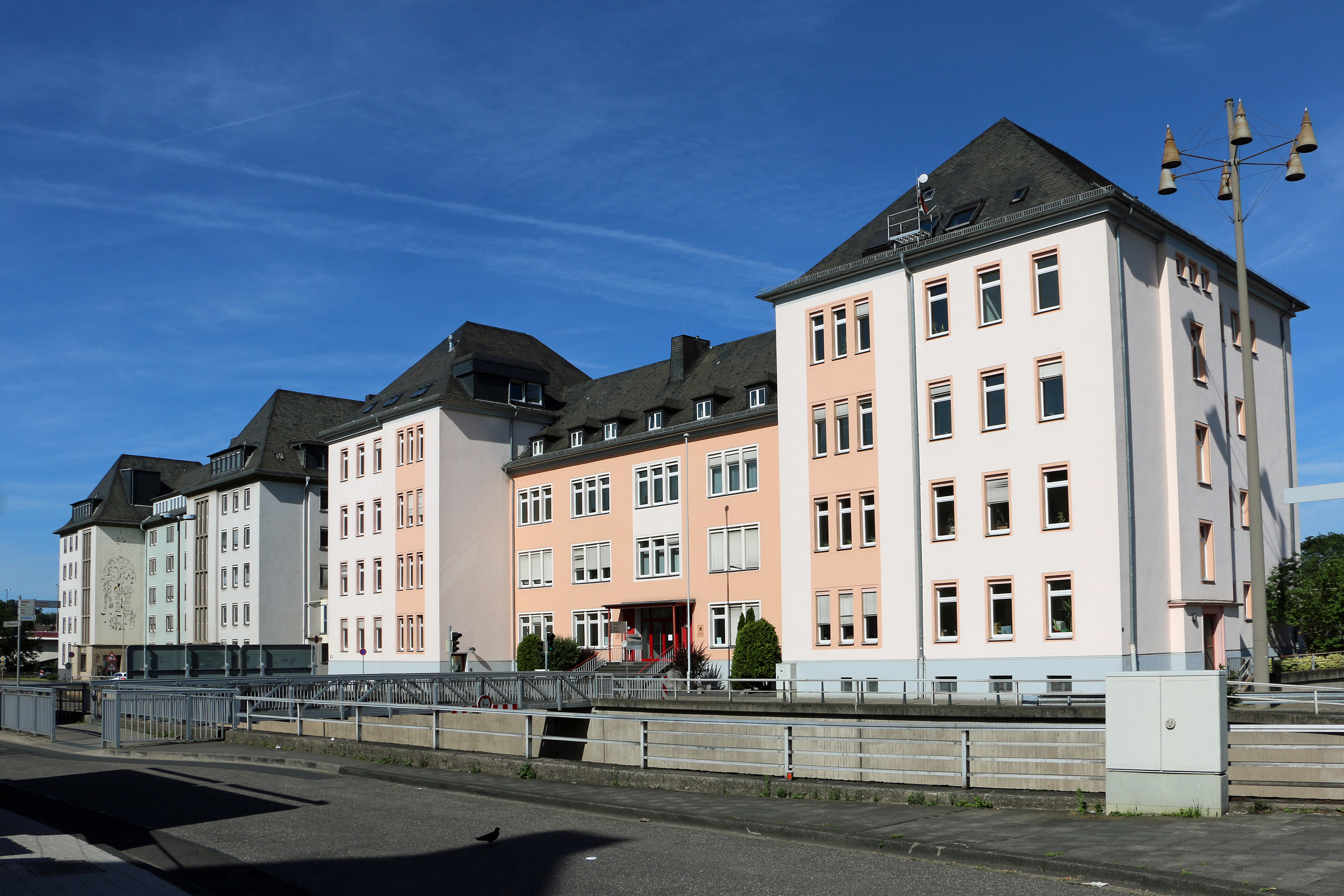 Old Falckenstein-Kaserne in Koblenz